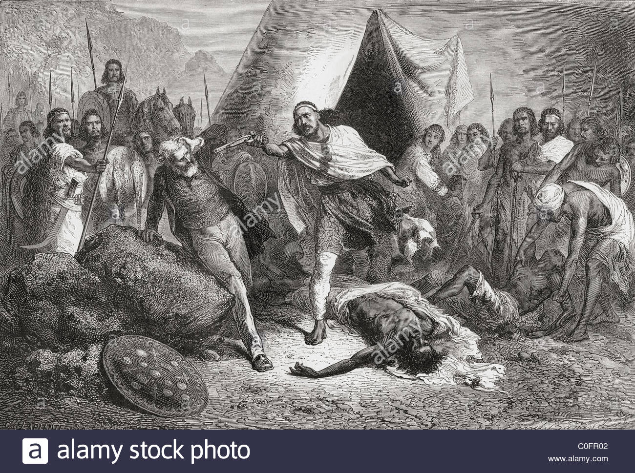 Henry Stern taken prisoner by Tewodros II in Abyssinia in 1863. Rev. Henry Aaron Stern, 1820 to 1885, British missionary. (copyright attributable to: Alamy Stock Photo)